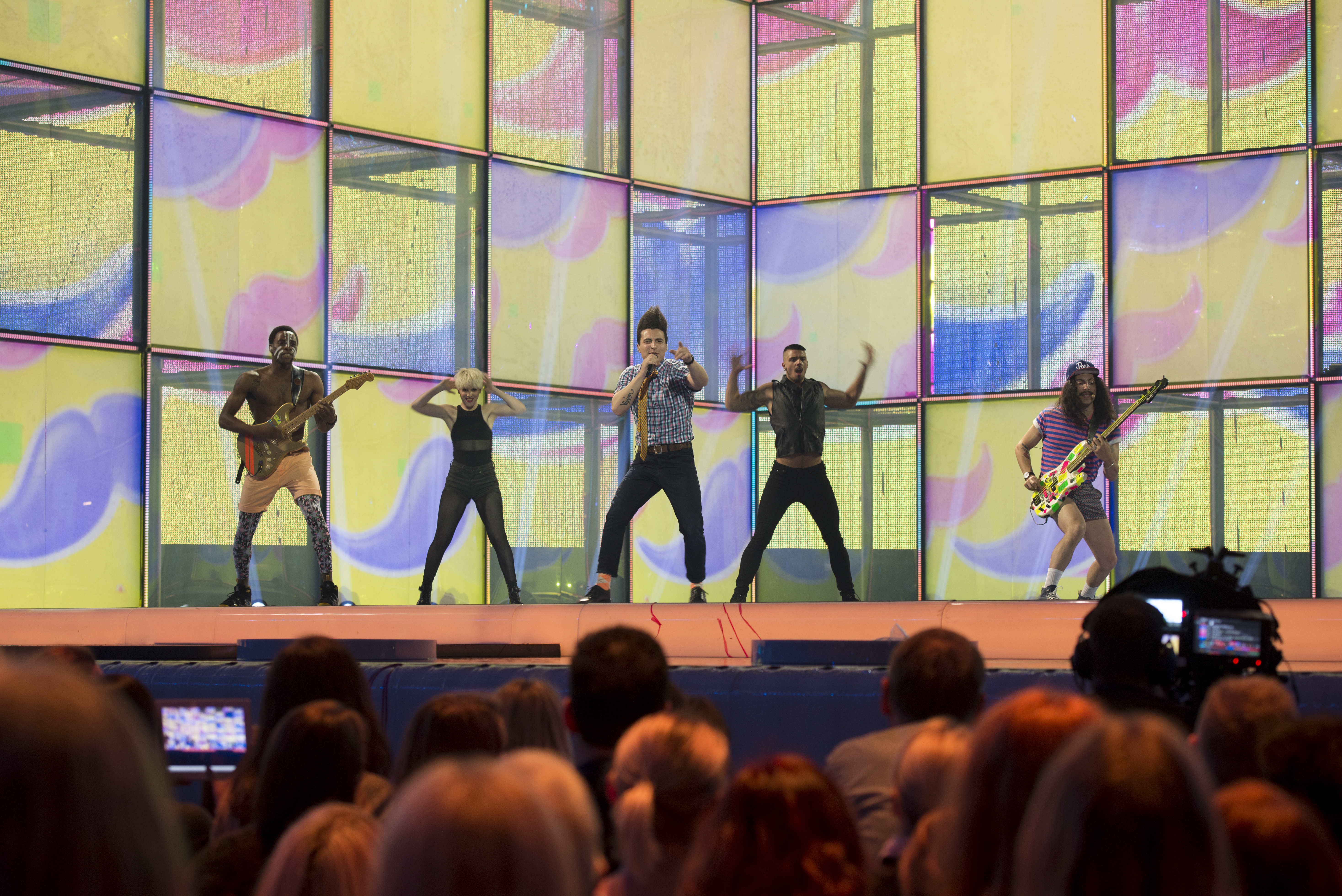 Twin Twin representing France with the song "Moustache" during the first dress rehearsal of the final of the Eurovision Song Contest 2014 Copenhagen. (Help translate this text)